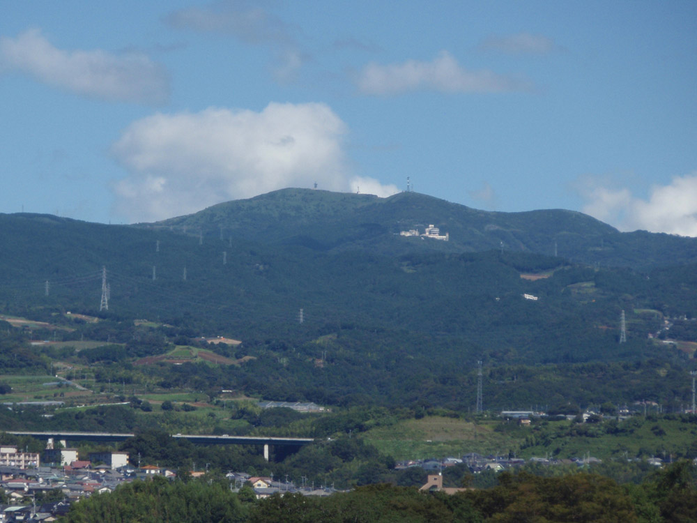 The WSW side of Mount Kurakake in the border between Kannami and Hakone.